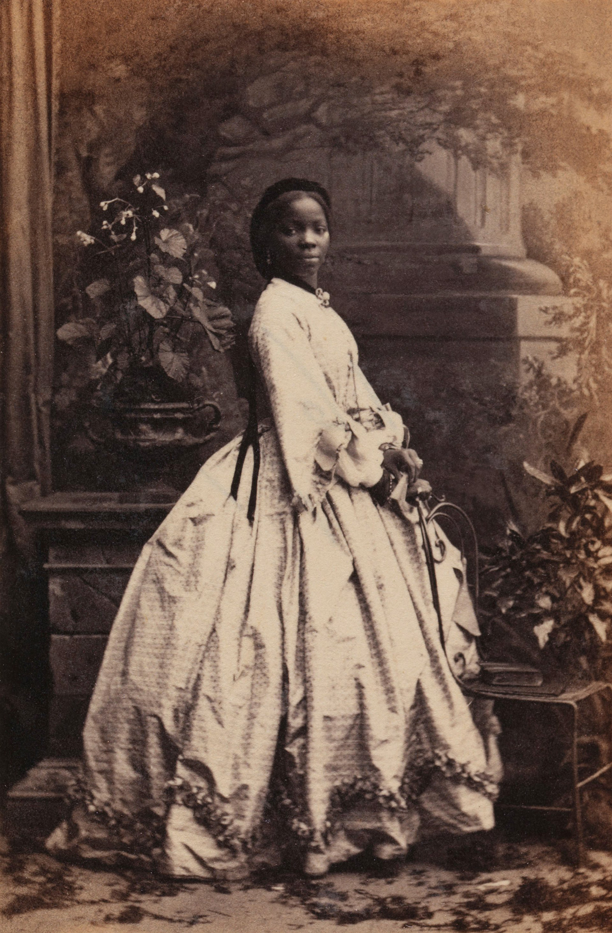 Portrait of Sara Forbes Bonetta